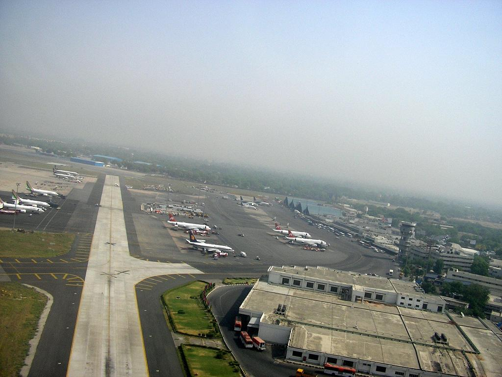 An aerial view of the domestic section of Indira Gandhi International Airport, New Delhi as of June 2006.